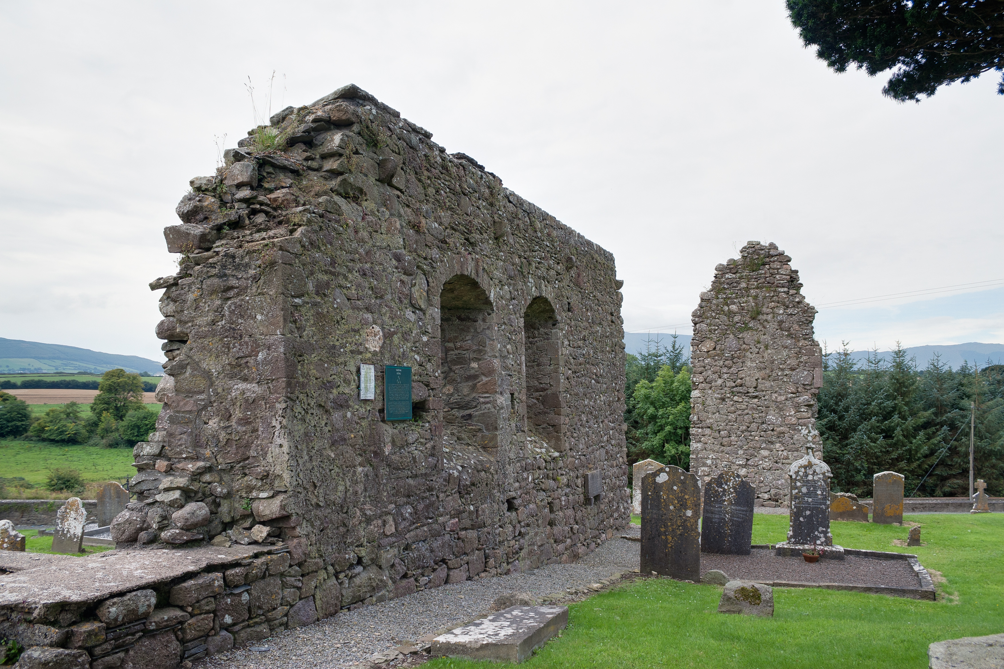 Nave with the surviving remains of the south wall (left) and the west gable (right), looking west.